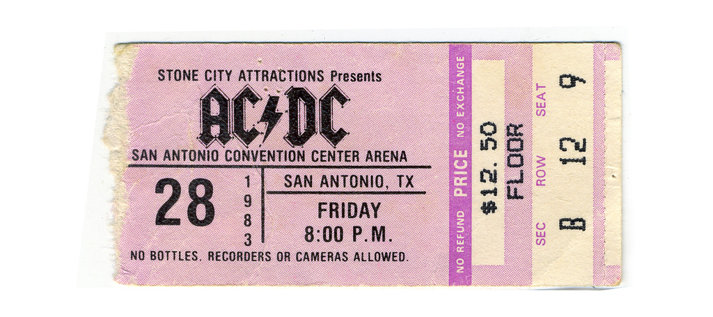 Ticket AC/DC Concert, in 1983, at San Antonio Convention Arena, Texas, USA.